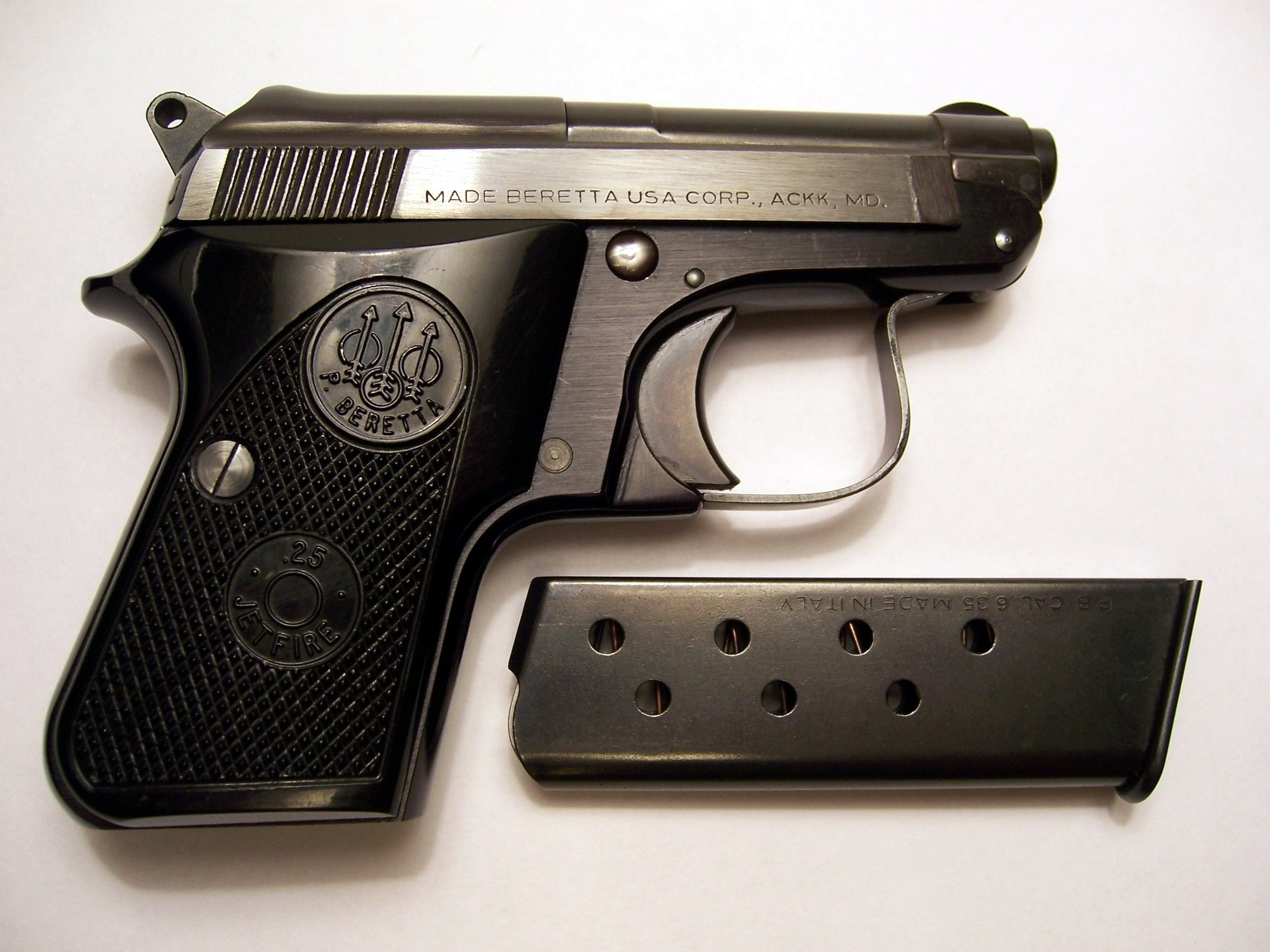 The Beretta 950 Jetfire is a semi-automatic pistol designed and manufactured by Beretta since 1953. It builds on a long line of small and compact pocket pistols manufactured by Beretta for self-defense. Based on very early Beretta models, the weapon is intended to be a very simple and reliable pocket pistol. (Description copied from the English Wikipedia's article on the Beretta 950 Jetfire)